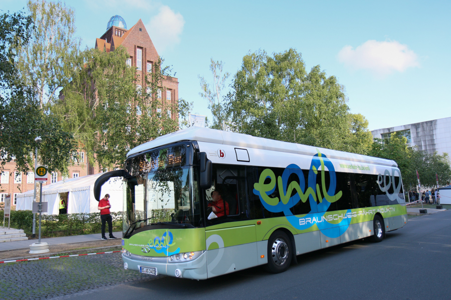 TU_Night 2016